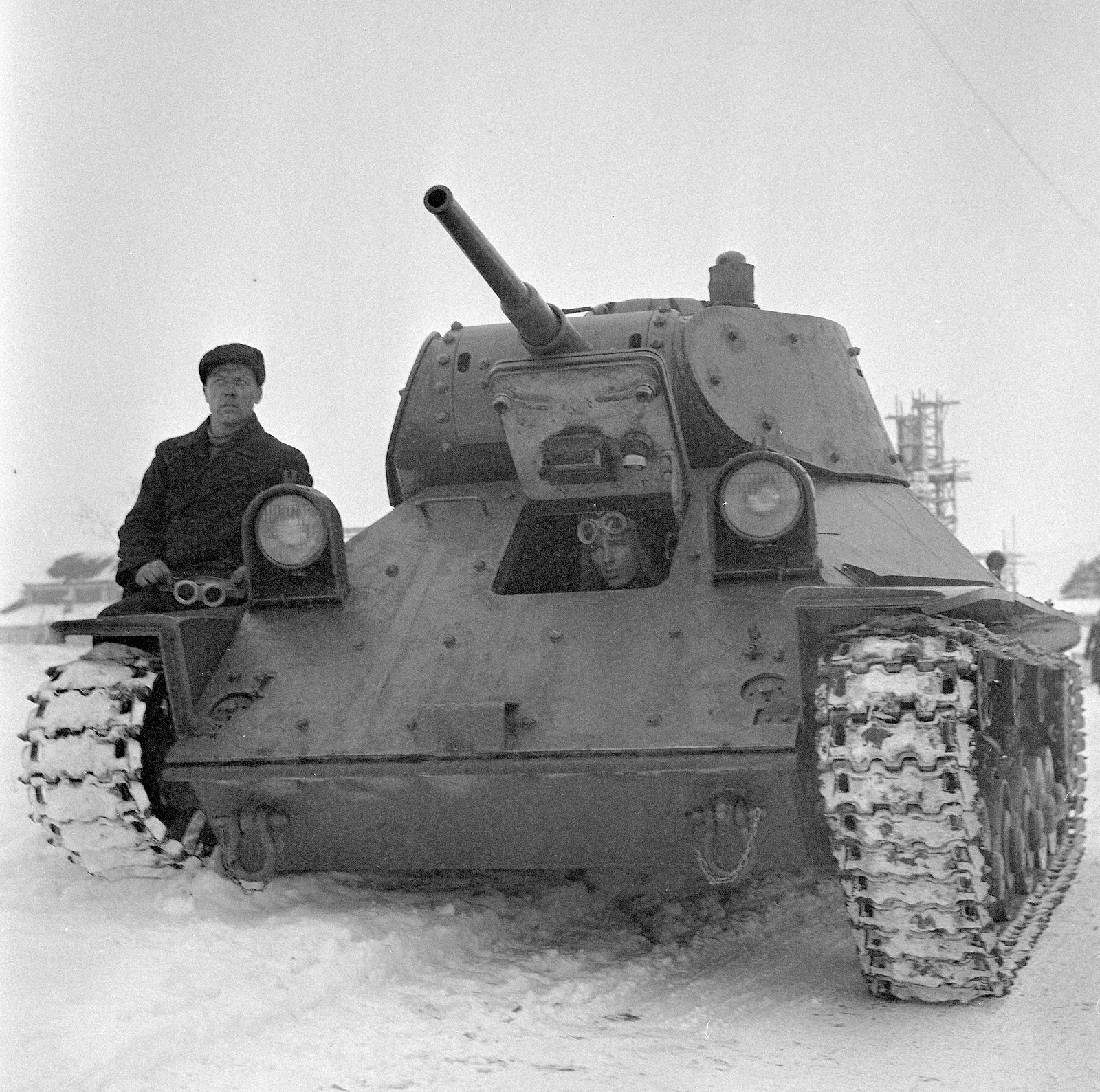 Captured Soviet T-50 tank in Finnish service.